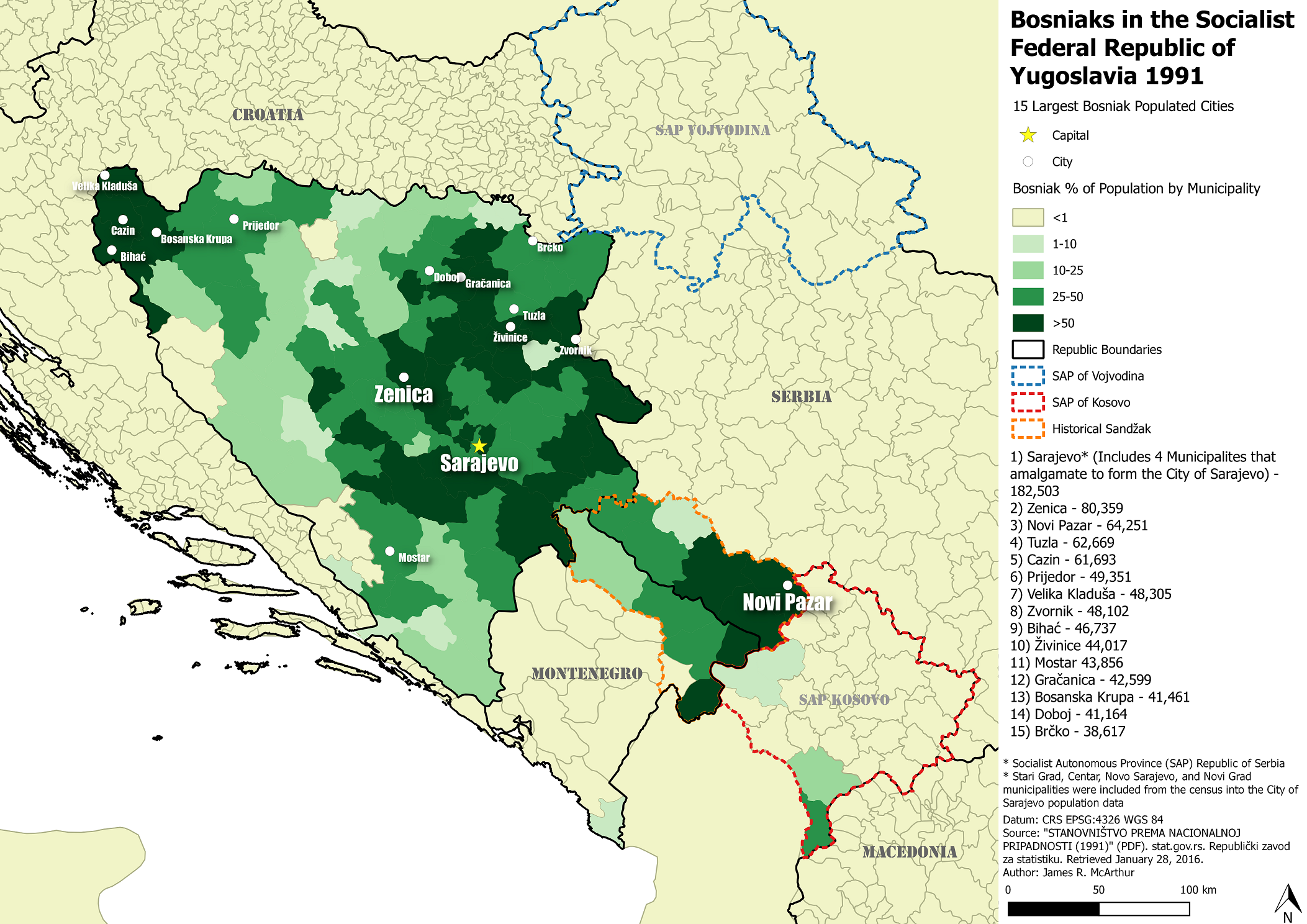 Bosniaks (Bosnian Muslims) in Socialist Federal Republic of Yugoslavia, 1991. Novi Pazar of Sandžak ranked 3rd largest Bosniak populated city.